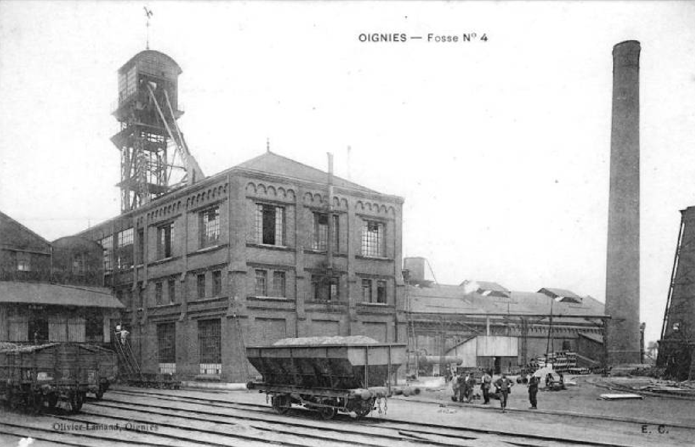 Pit of the Compagnie des mines d'Ostricourt, Nord-Pas-de-Calais, France.